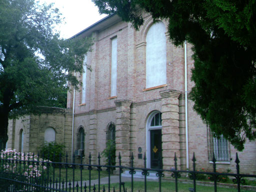 The Brownsville Masonic Temple and a good example of 19th Century architecture in Brownsville. The building was originally built in 1883 as the Cameron County Courthouse which it served as until 1912 when a larger courthouse was built.